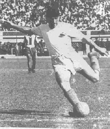 Lolo Fernandez shirt of the "U " in 1953.